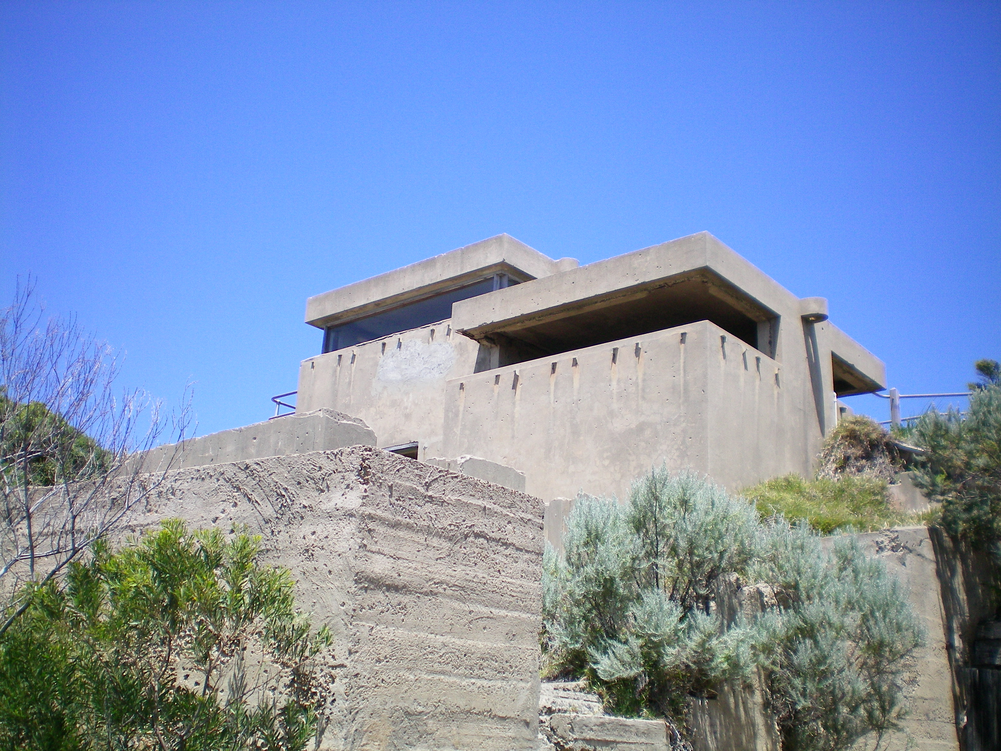 Pillbox at Point Nepean